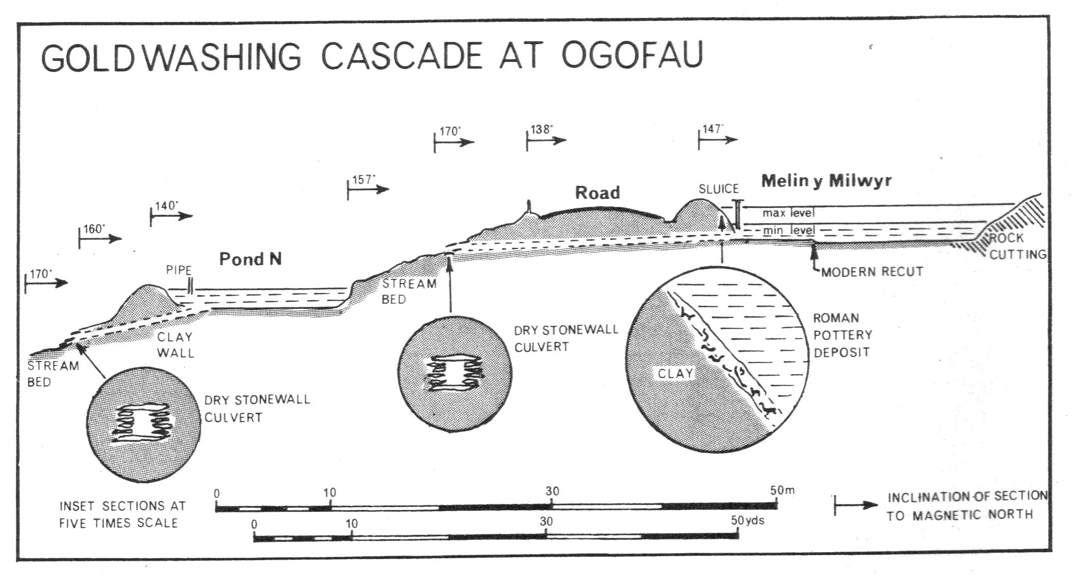 Own diagram of section of cascade Melin-y-Milwyr made in 1970